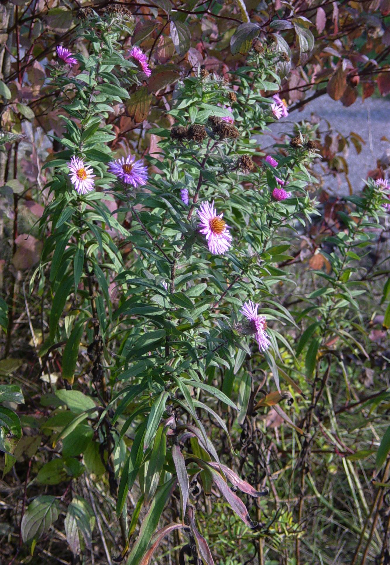 flowering plant of Aster novi-belgii